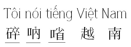 Mixed scripts of chữ Hán and chữ Nôm. Please note that the Vietnamese language is more commonly referred to as "tiếng Việt" than "tiếng Việt Nam".